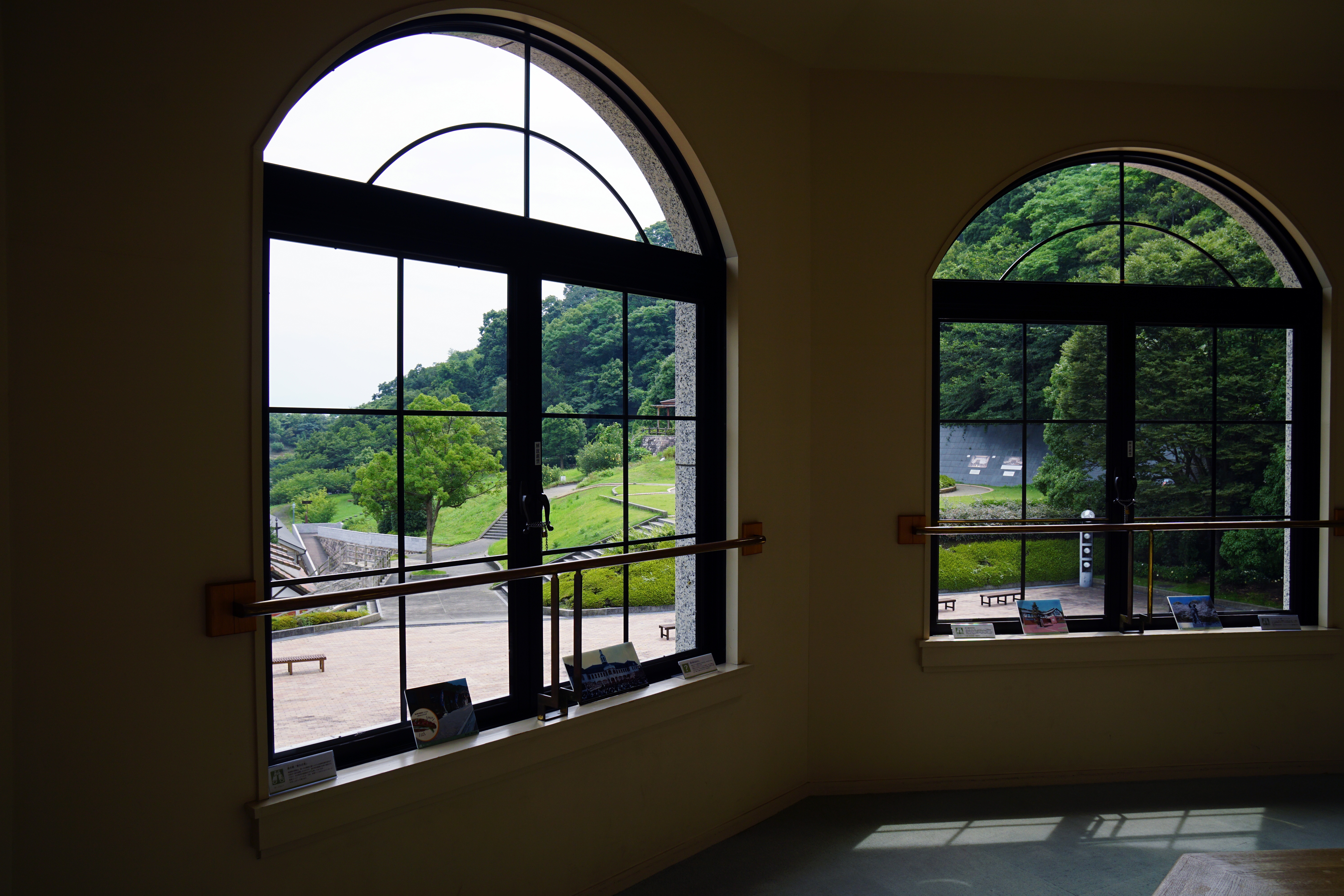 Naruto_German_House in Naruto, Tokushima prefecture, Japan.